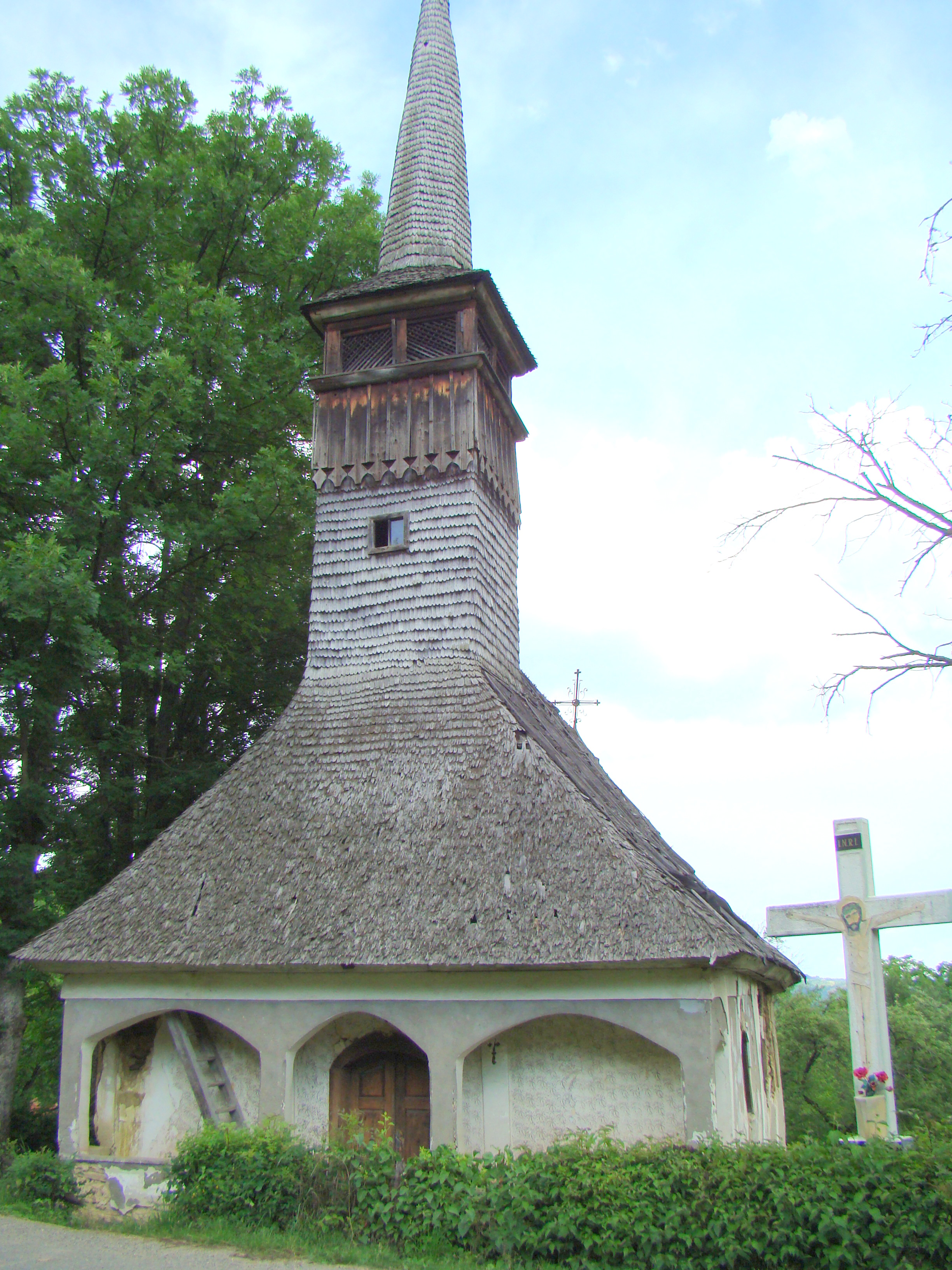 wooden church in Buteasa, Maramureș County, from 1800